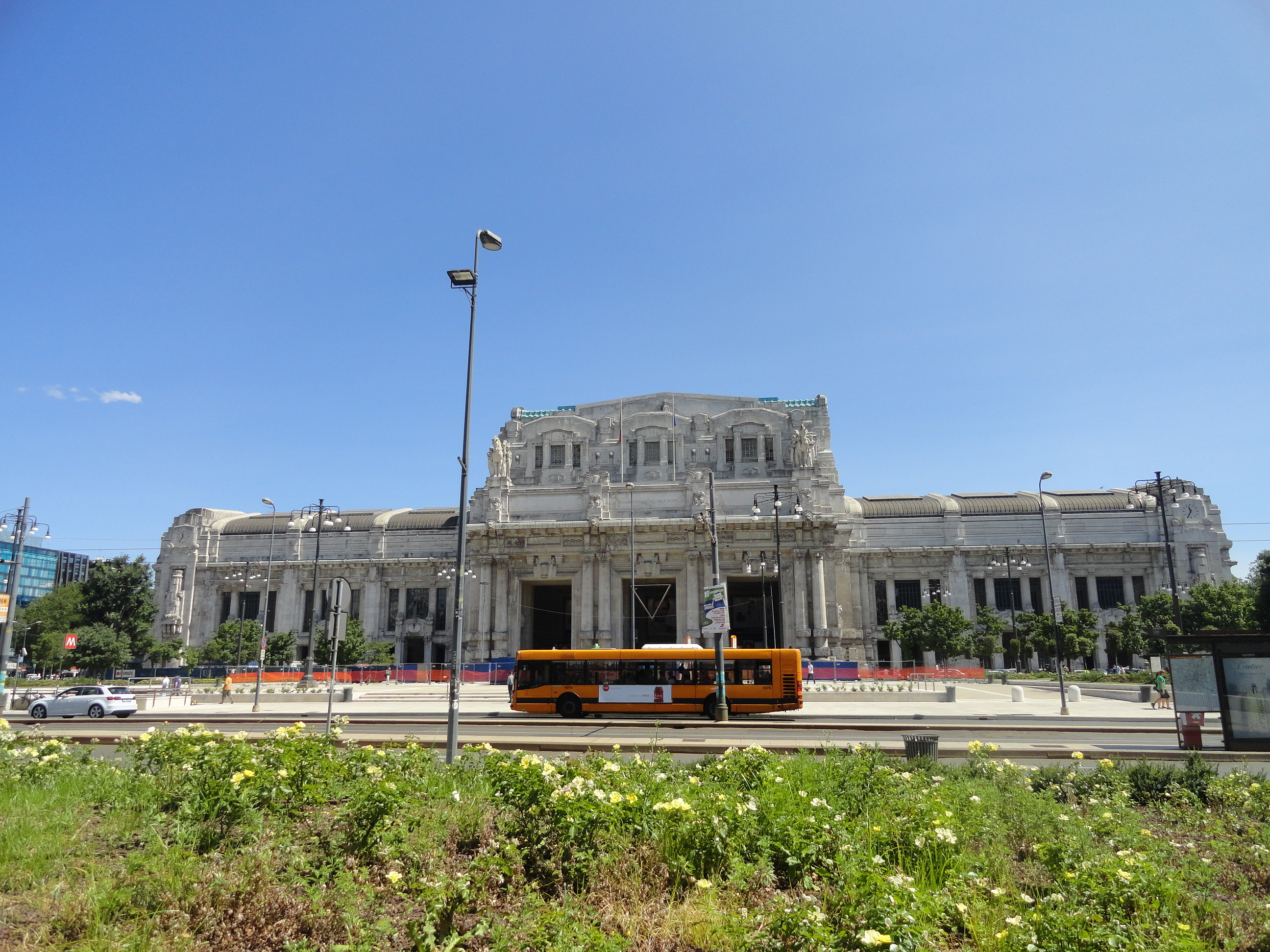 The view at the front facade of Stazione Centrale in Milan, Italy. One of the main European railway stations is very well connected with all airports around the city and is very busy and crowded place. Check out our blog at